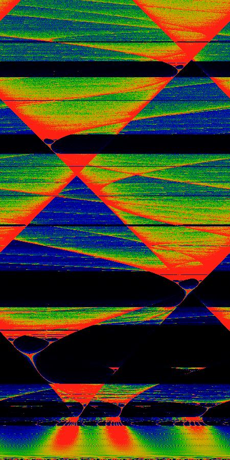 Shows the bifurcation diagram for the iterated circle map. The circle map is given by iterating on the map.